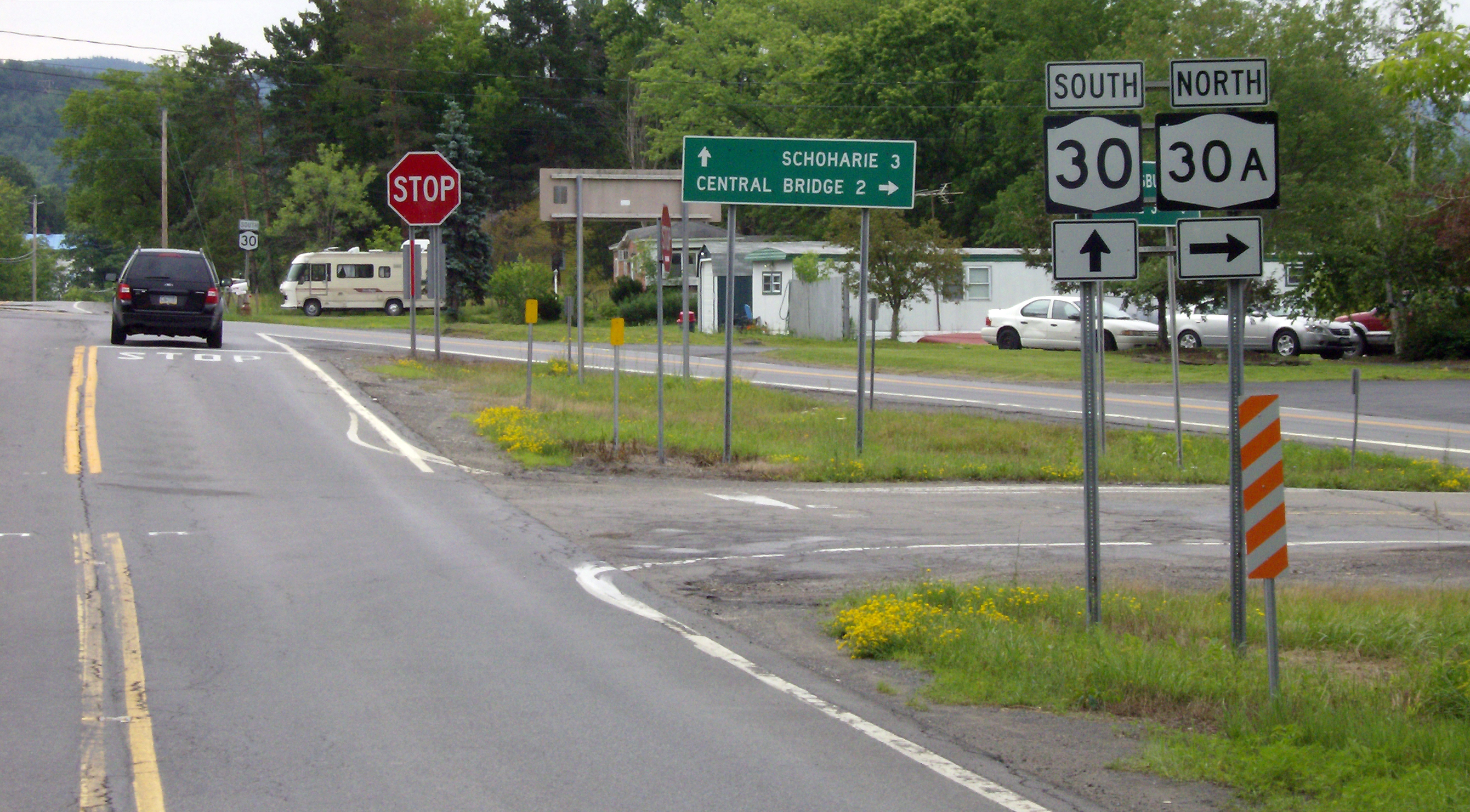 Southbound NY 30 north of Schoharie, where NY 30A's terminus is. Note how NY 30 has to stop and NY 30A doesn't.